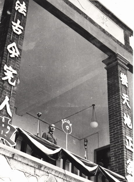 From en, Image:Zangjiesi-declare.jpg, corrected spelling.